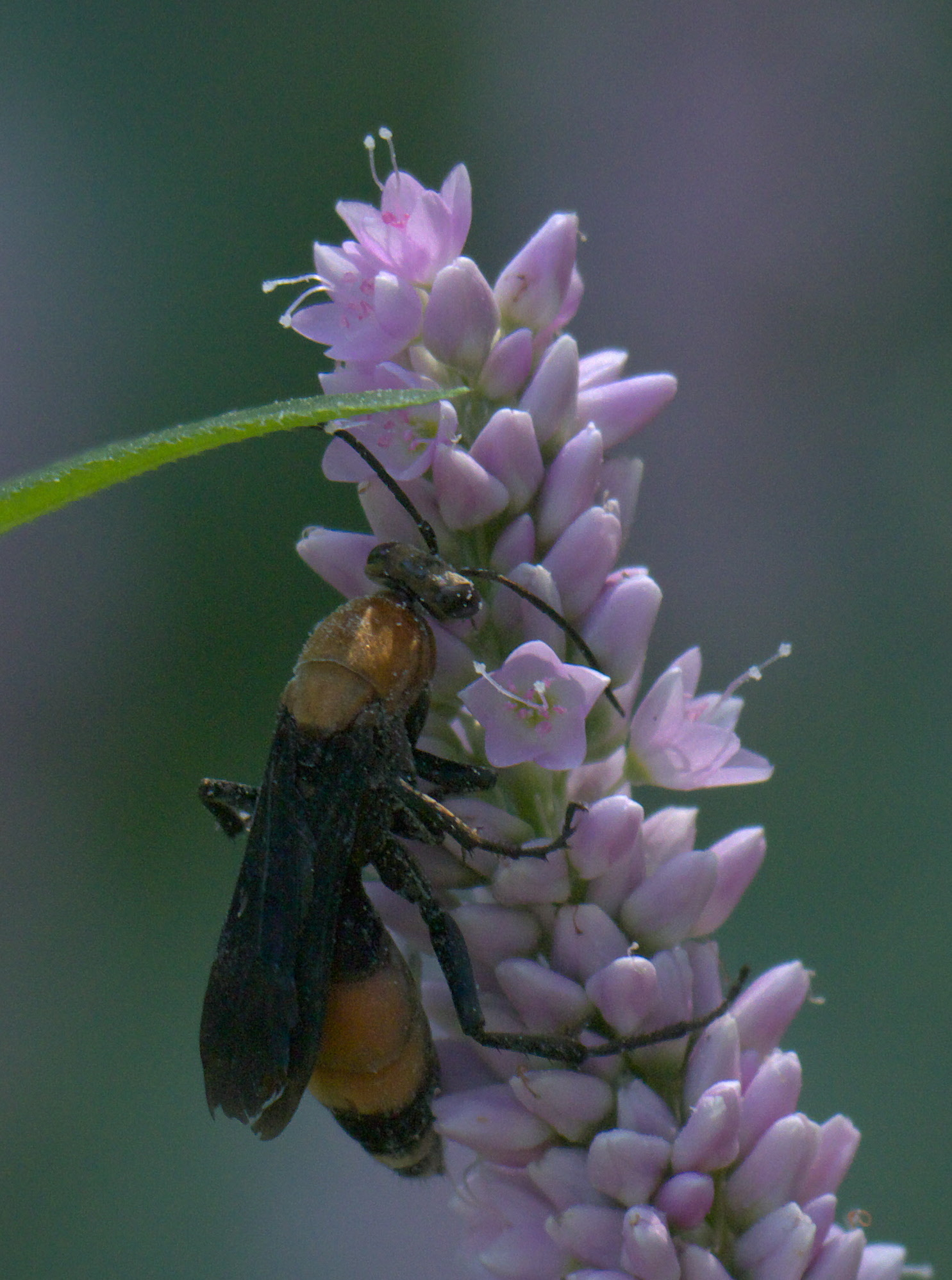 Psorthaspis sanguinea, Family: Spider Wasps, ID Confidence: 98